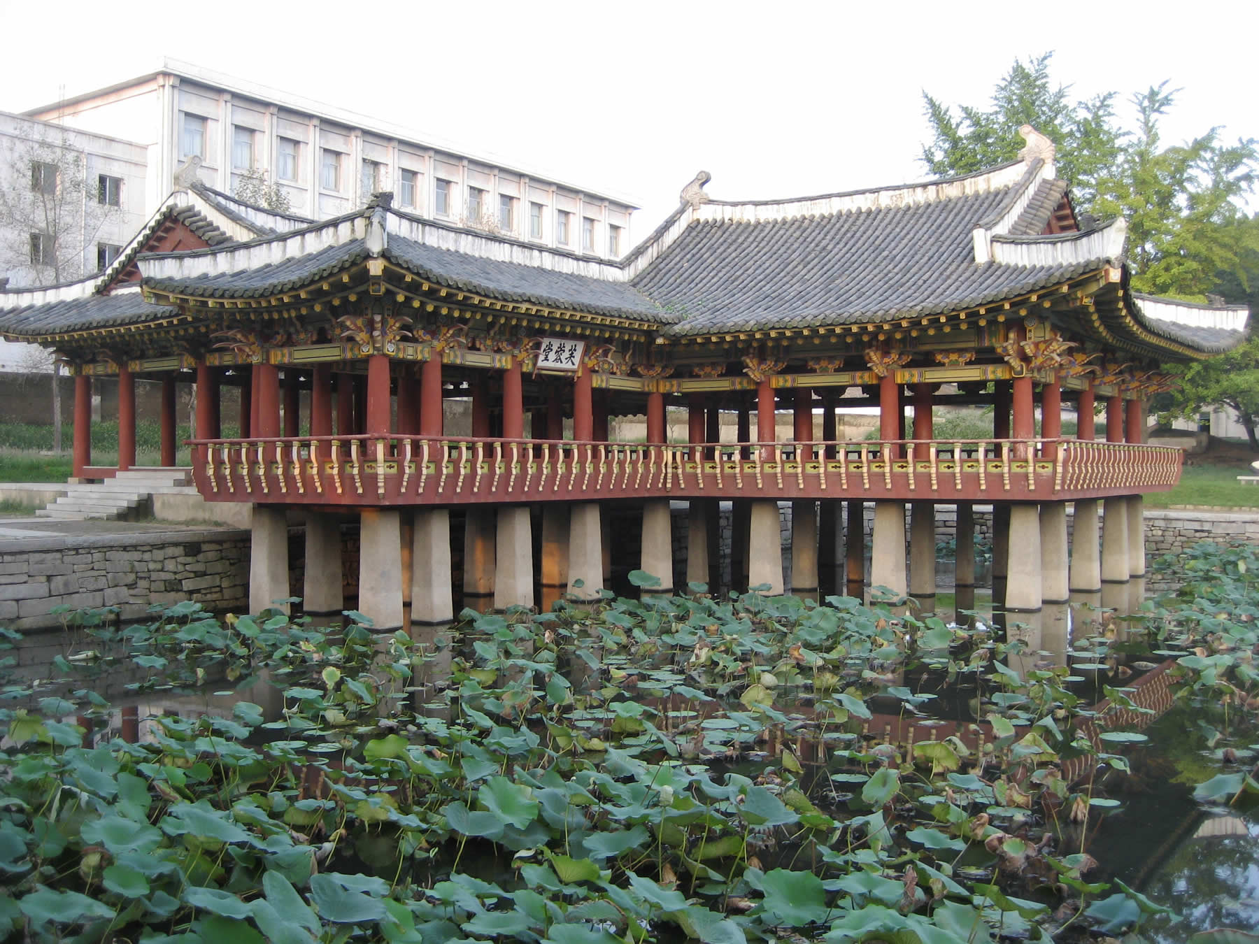 The Puyong Pavilion in downtown Haeju, Democratic People's Republic of Korea.